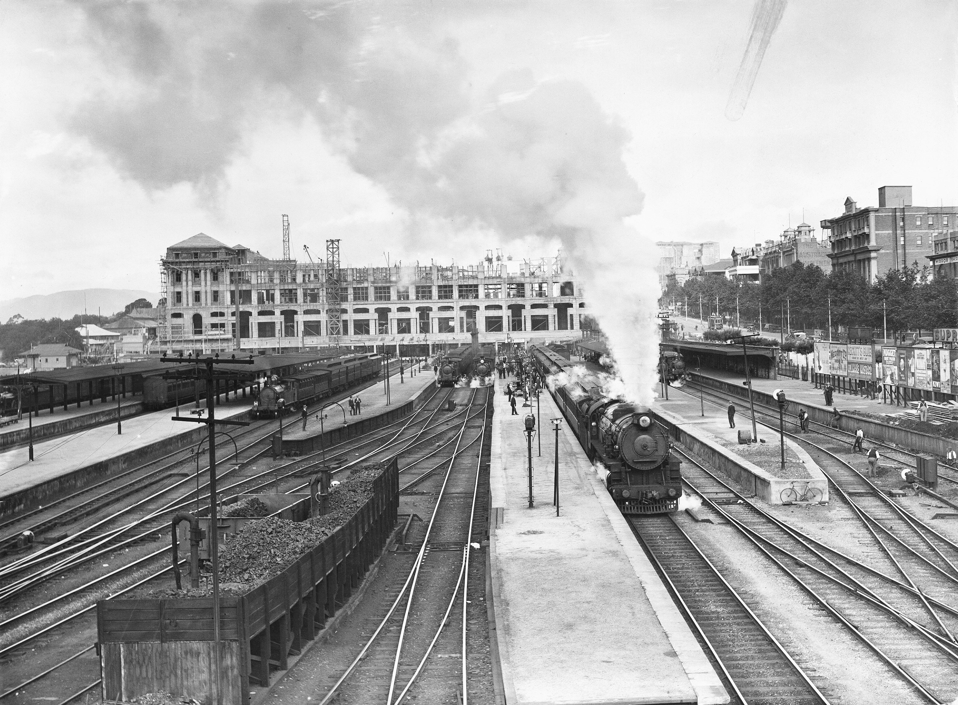 The incompleted Adelaide Railway Station forms a background to this view of the railway platforms and lines. One of the trains is leaving the station under full steam whilst men are hard at work with picks and shovels on an adjoining line. The material in the large container on the left is probably coal or coke for fuelling the engines. [On back of photograph] 'Adelaide Railway Station / looking east from the Overway Bridge. / 1927 / Reproduced in the "Observer", Dec. 10, 1927.'